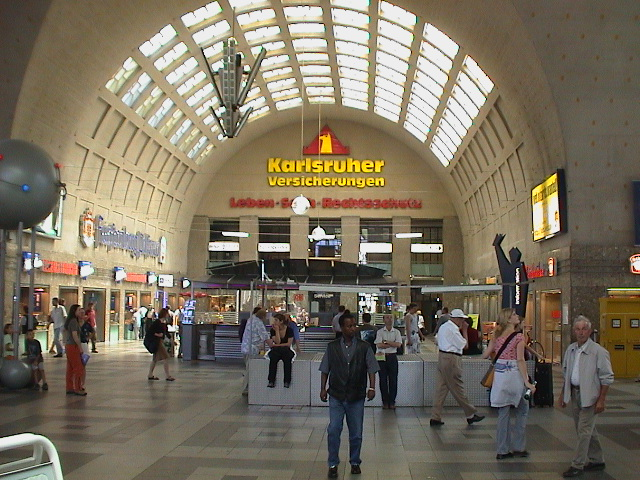 Main station Karlsruhe, Germany